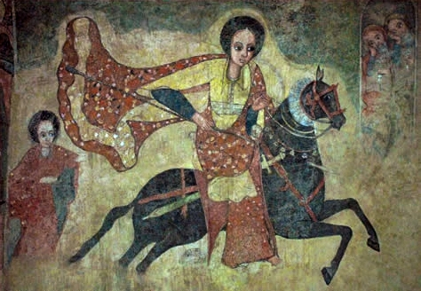 Mural on canvas, from Lalibela, now in the National Museum at Addis Ababa. This horseman with a spear is beside Our Lady Mary and is probably St. George, with the rescued princess behind him and her parents gazing down.